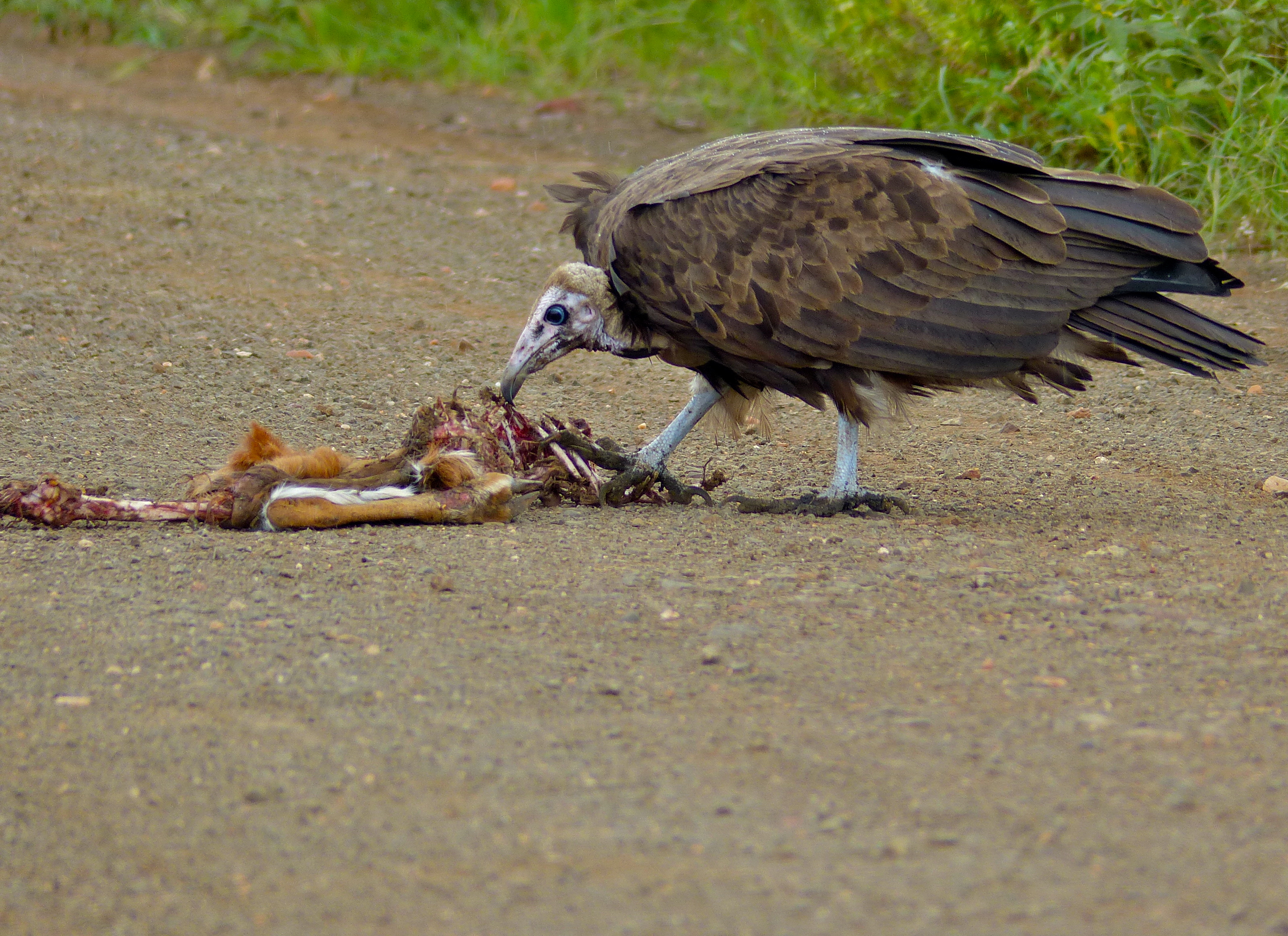 S41 Road East of Satara, Kruger NP, SOUTH AFRICA